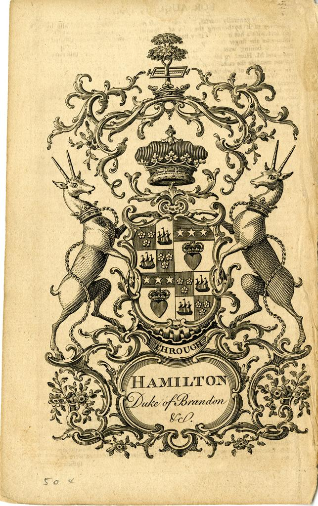 Armorial/Heraldic Bookplates. Subject: Coat of arms; Shields; Animals; Crowns; Floral. Subject - Family Name: Hamilton.